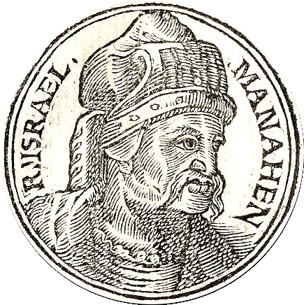 Menahem